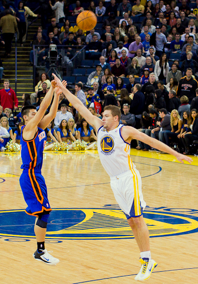 Jeremy Lin shooting over David Lee.